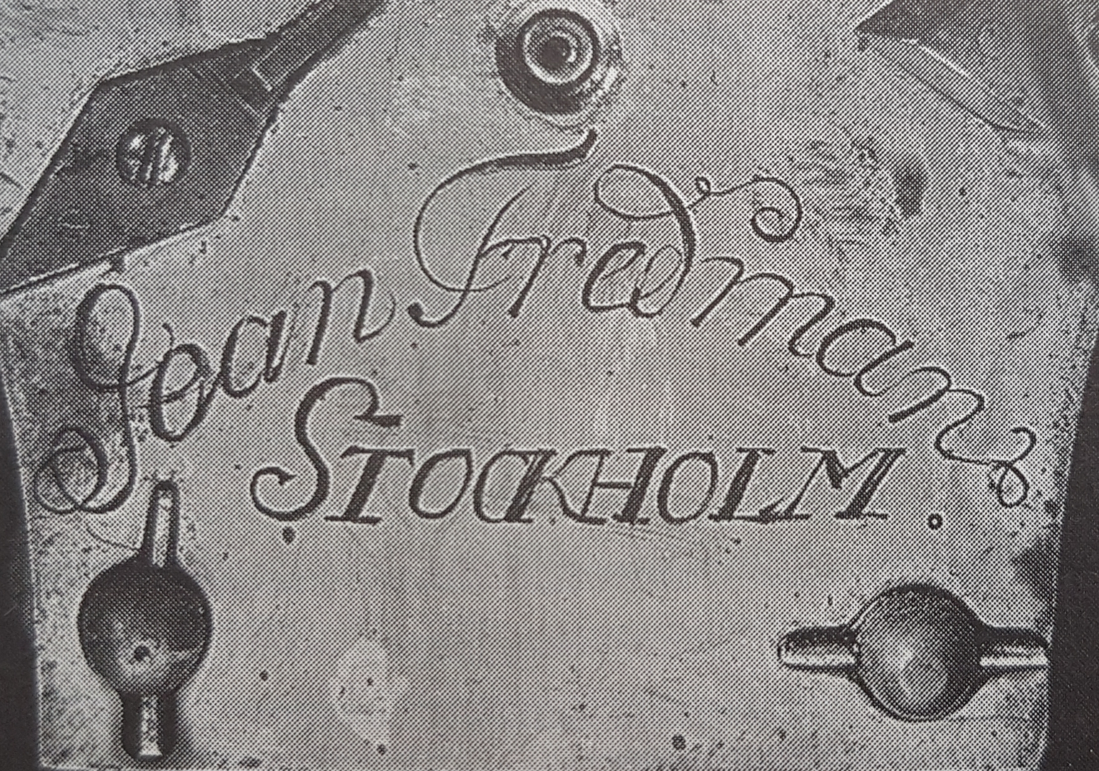 Clock movment made by Jean Fredman